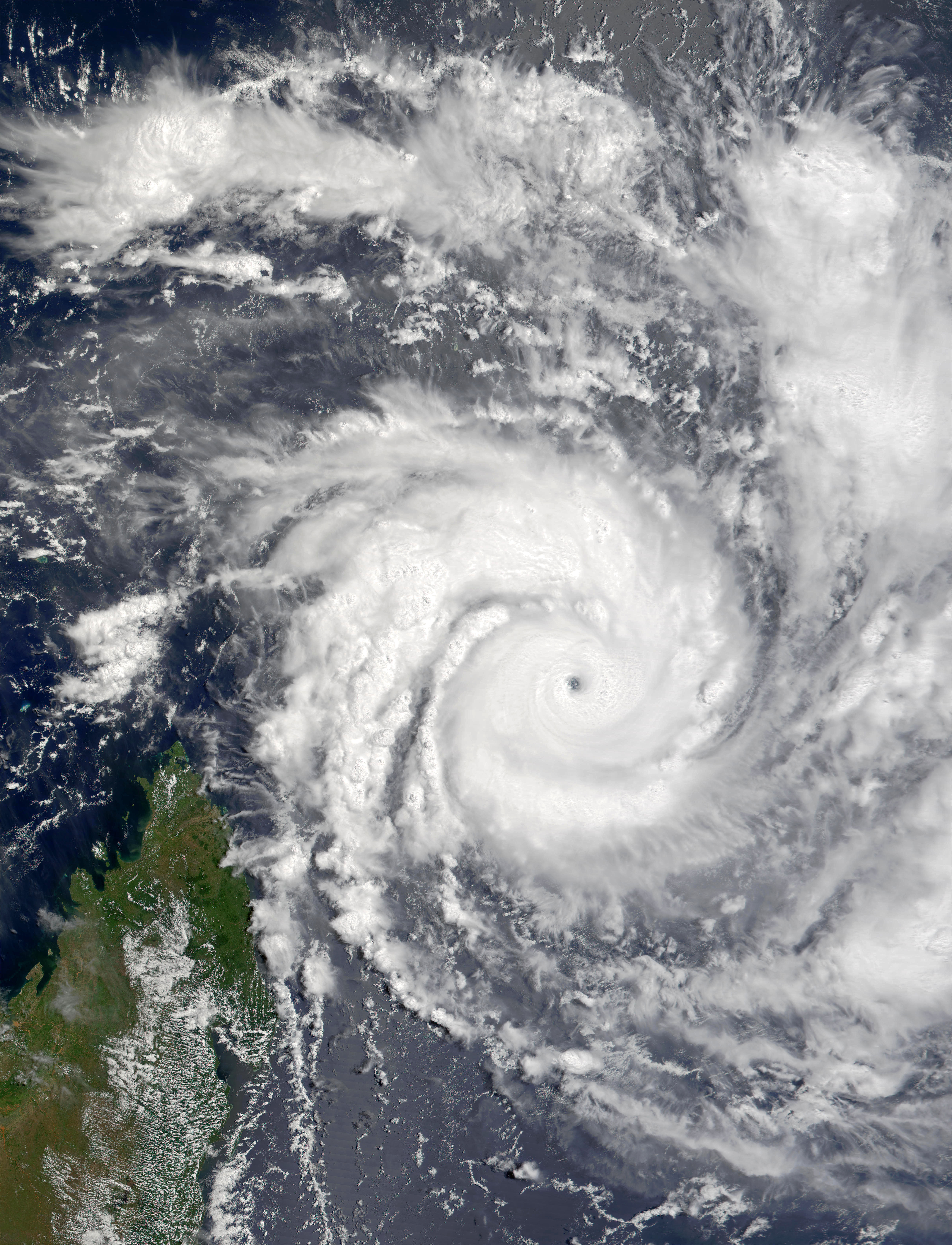 Tropical Cyclone Hary can be seen bearing down on Madagascar in this true-color image taken on March 8, 2002, at 7:00 UTC by the Moderate-resolution Imaging Spectroradiometer (MODIS), flying aboard NASA's Terra spacecraft. The cyclone, which came out of the east, hit the northern tip of Madagascar today before turning south and moving along the eastern shore of the island. At the time this image was taken, the cyclone carried sustained winds of roughly 222 kilometers (138 miles) per hour and gusts of up to 269 kilometers (167 miles) per hour.